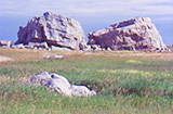 Okotoks erratic, near Okotoks, Alberta, Canada.